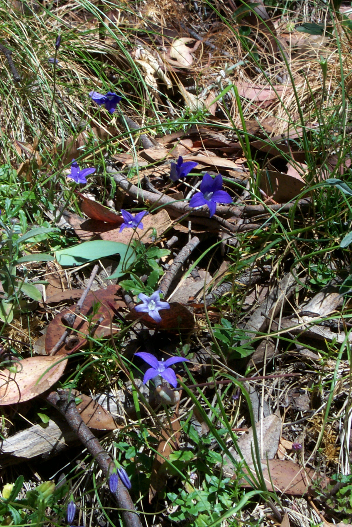 A photo of Wahlenbergia gloriosa growing in the wild on Mount Buffalo National Park. The plant is the dark green slightly serrated rosettes. Also in the photo is a stylidium aff. graminifolium (thin strappy leaves), Poa heimata and some Hickory wattle leaves.